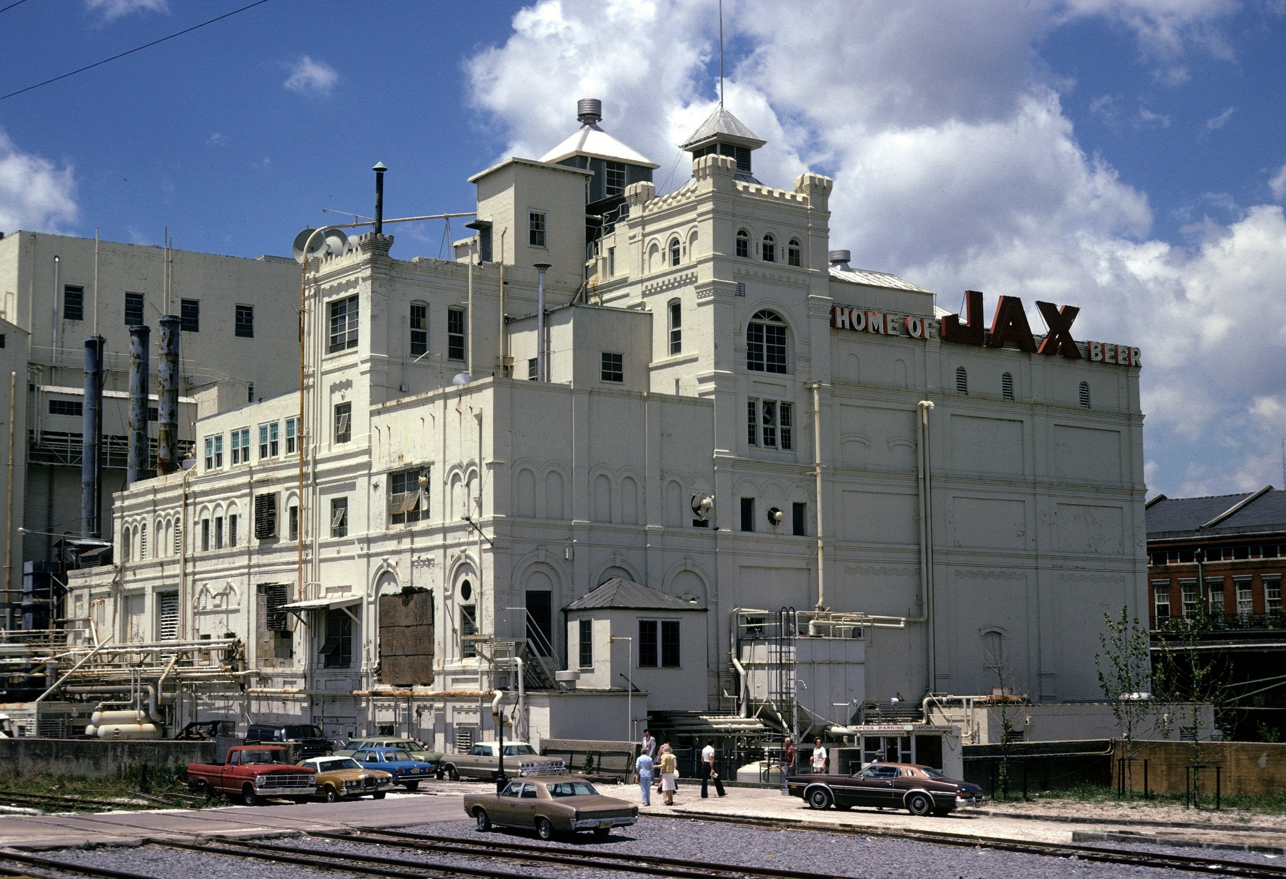 New Orleans, 1976. Jackson Brewery building viewed from the Moonwalk.